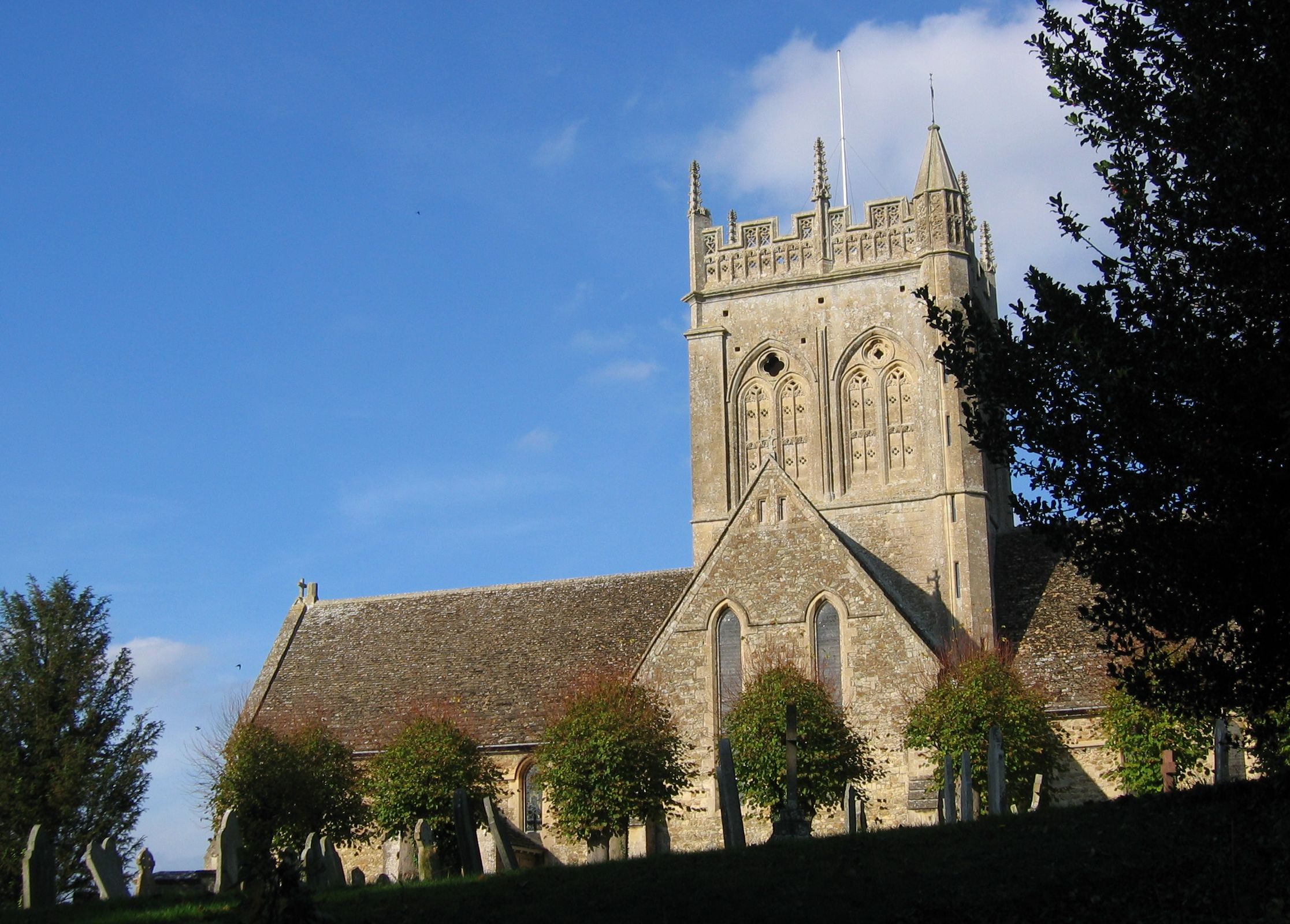 Church of St. Mary the Virgin in Potterne